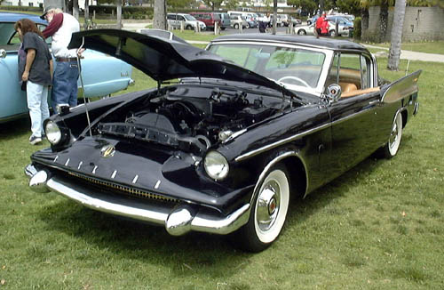 1958 Packard Hawk (Model 58L-K9) at a Studebaker show in Anaheim, California on May 25, 2003.